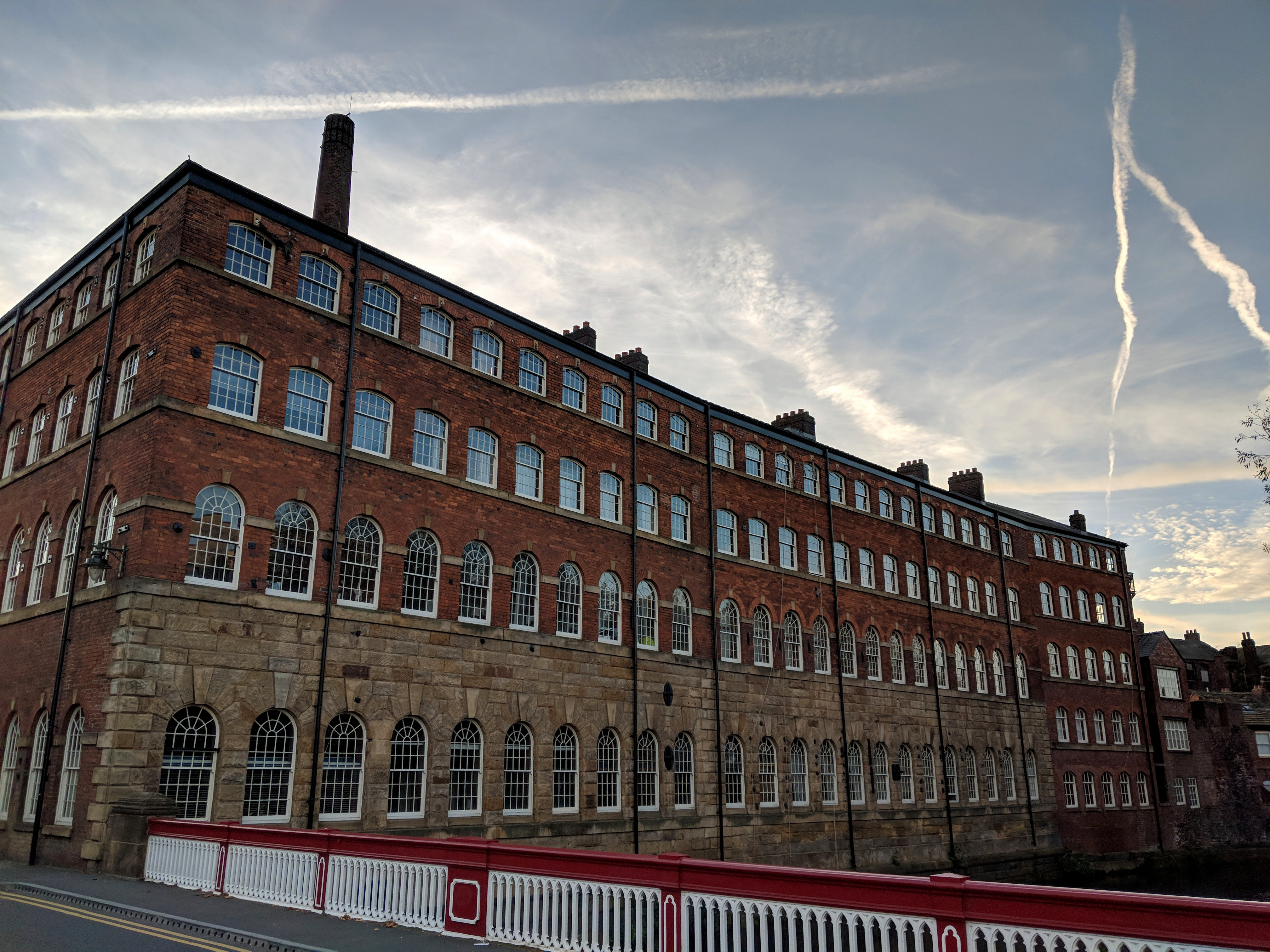 East Range At Cornish Place Works, Kelham Island, Sheffield Wikidata has entry Q17536016 with data related to this item.